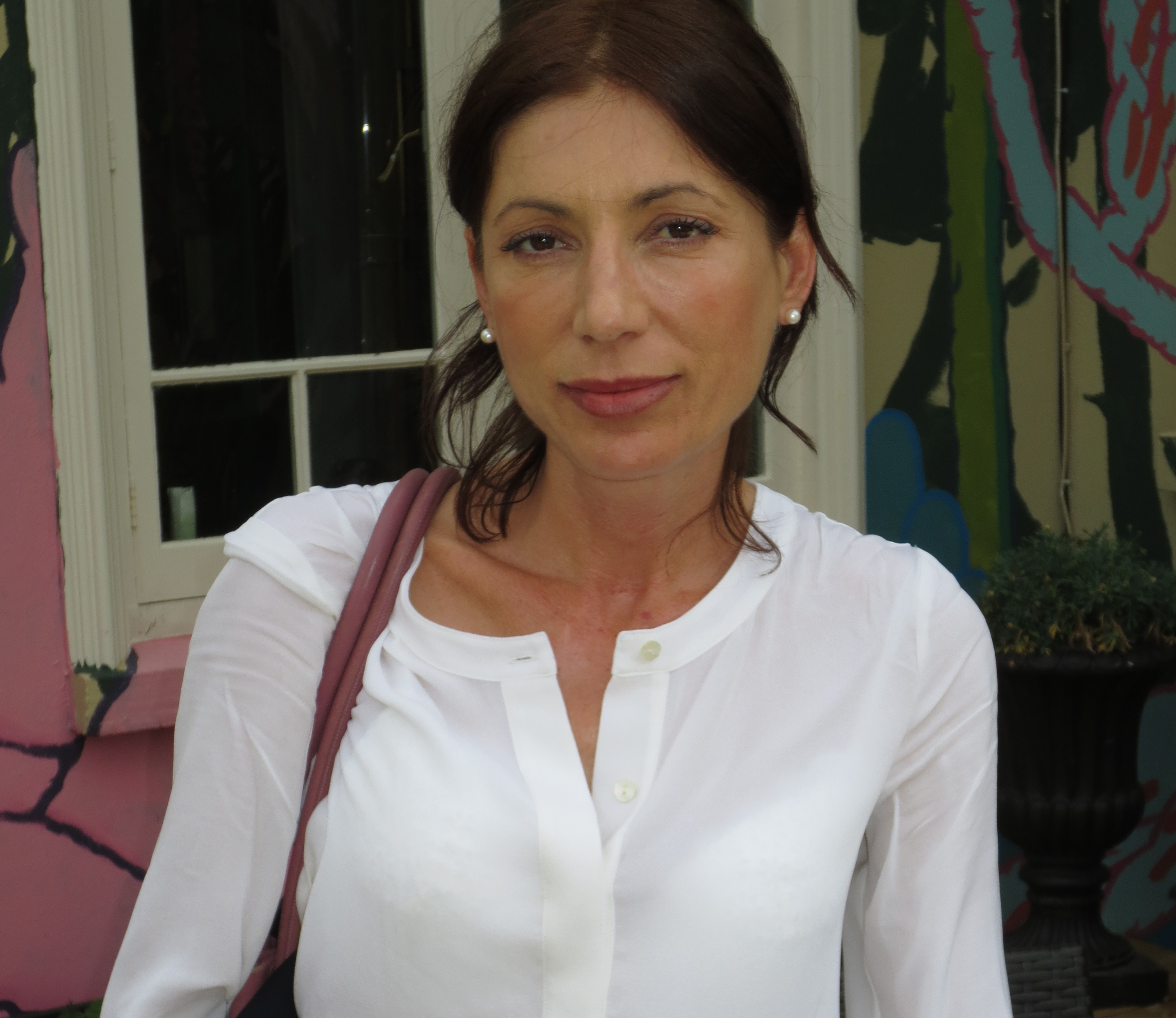 Portrait